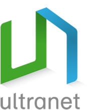 Logo of the Ultranet internet education product.